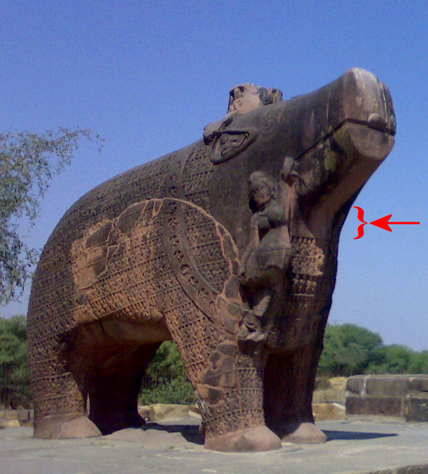 Location of the Eran boar inscription of Toramana